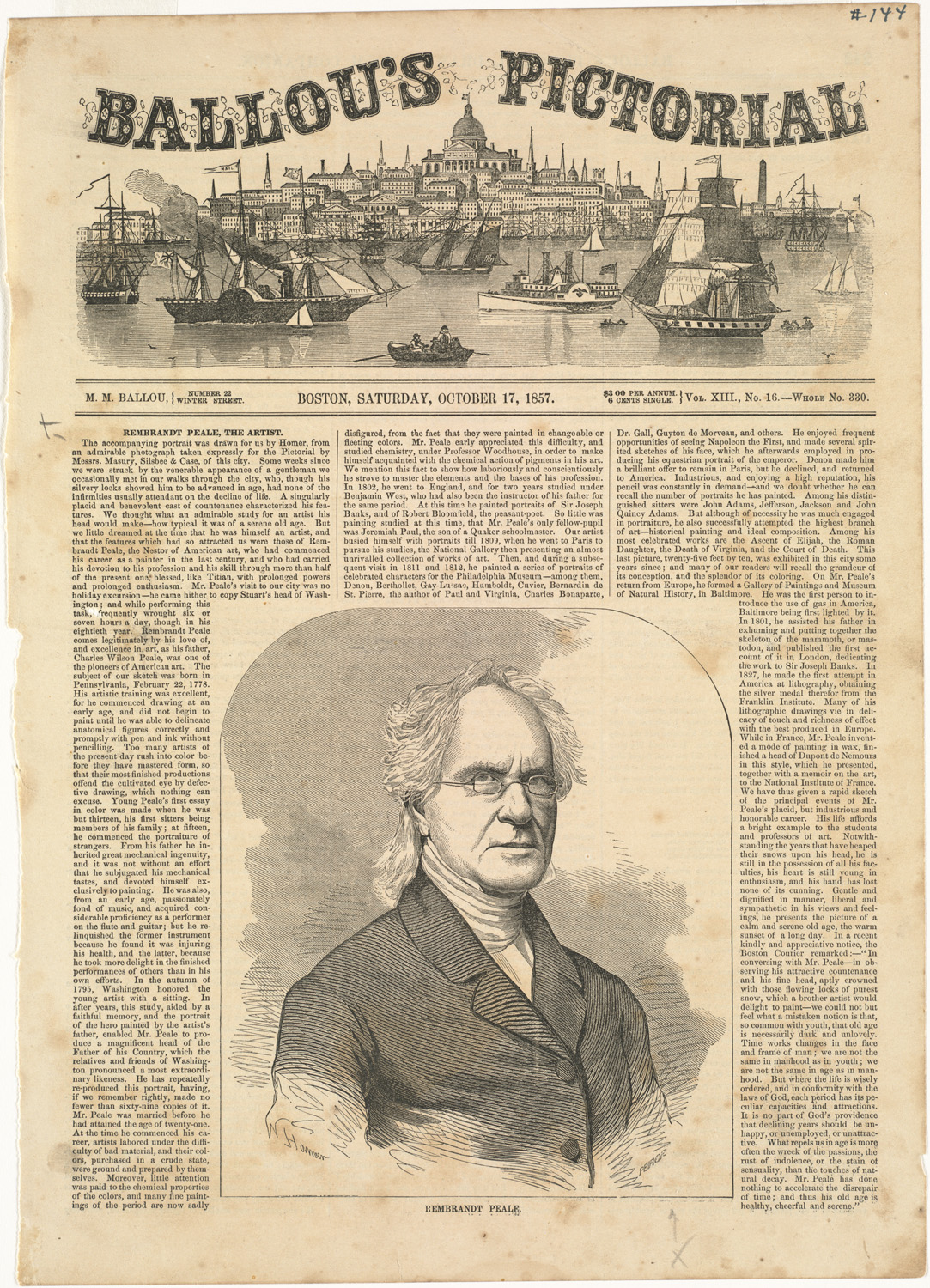 File name: 10_09_000133 Title: Rembrandt Peale Creator/Contributor: Homer, Winslow, 1836-1910 (artist) Date issued: 1857-10-17 Physical description: 1 print : wood engraving Genre: Wood engravings; Periodical illustrations Notes: Published in: Ballou's Pictorial, Volume XIII, 17 October 1857, p. 241.; Signed lower left: W. Homer.; Signed lower right: Peirce. Collection: Winslow Homer Collection Location: Boston Public Library, Print Department Rights: No known restrictions Flickr data on 2011-08-11: Camera: Sinar AG Sinarback 54 FW, Sinar m Tags: Winslow Homer User: Boston Public Library BPL